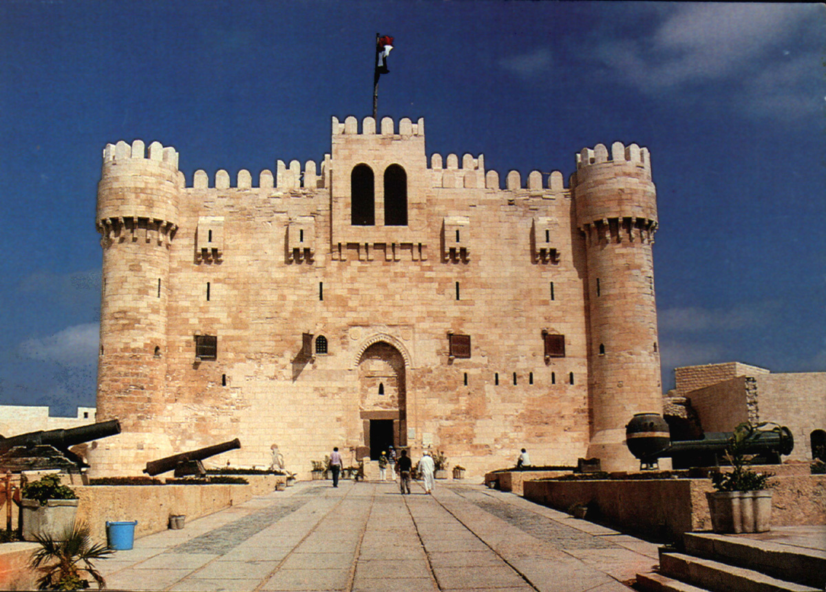 Front view of Qaitbay citadel Alexandria Egypt.